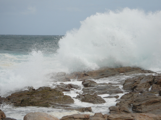 Splashing wave at Cape St. Francis; South Africa (Eastern Cape)